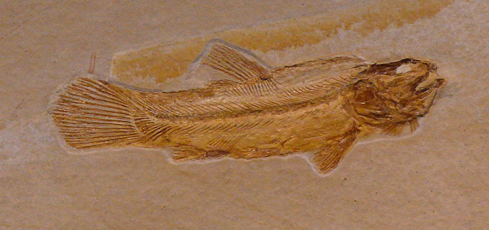 Amiopsis lepidota from Solnhofen, Germany